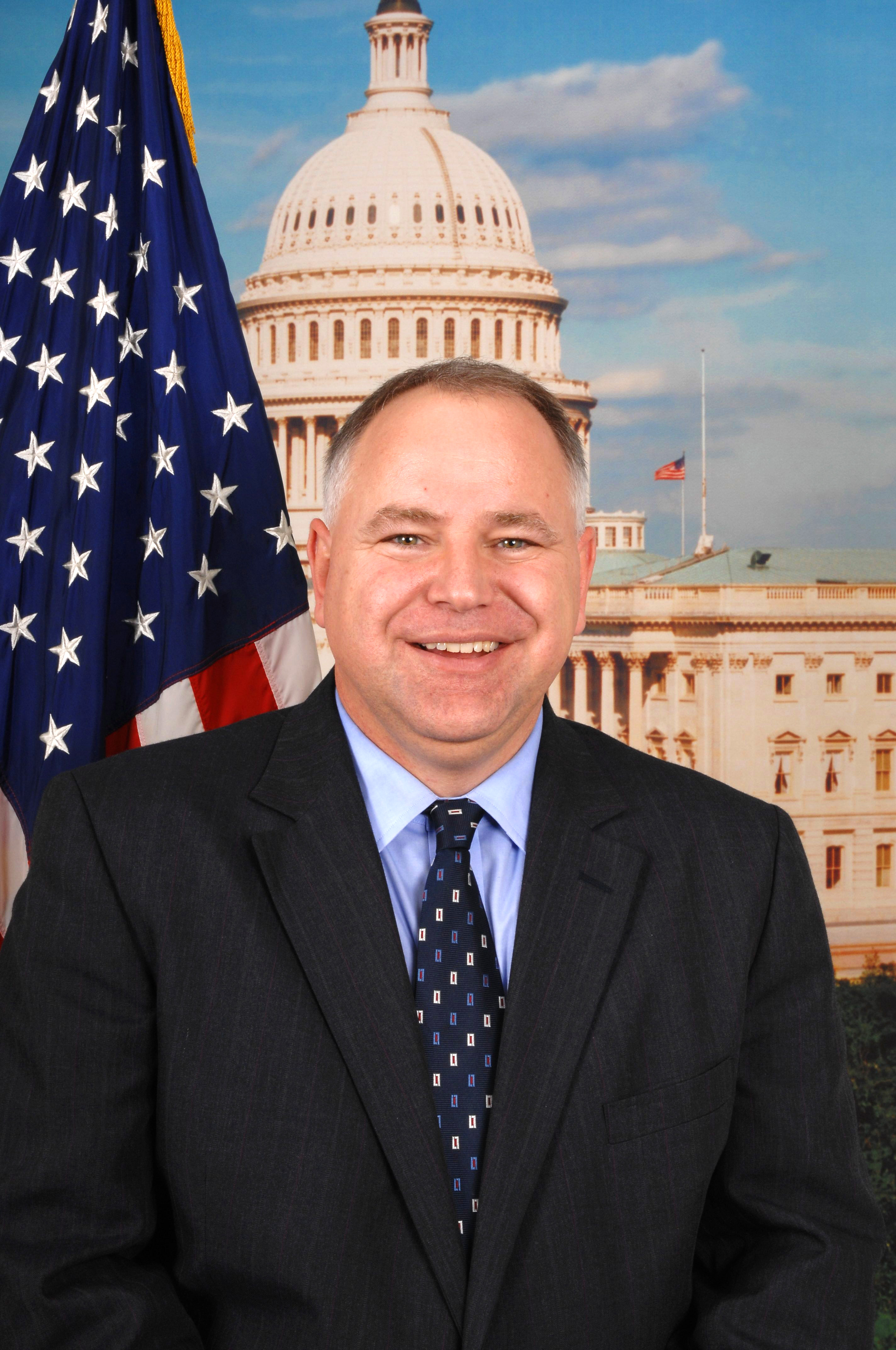 Tim Walz, member of the United States House of Representatives.